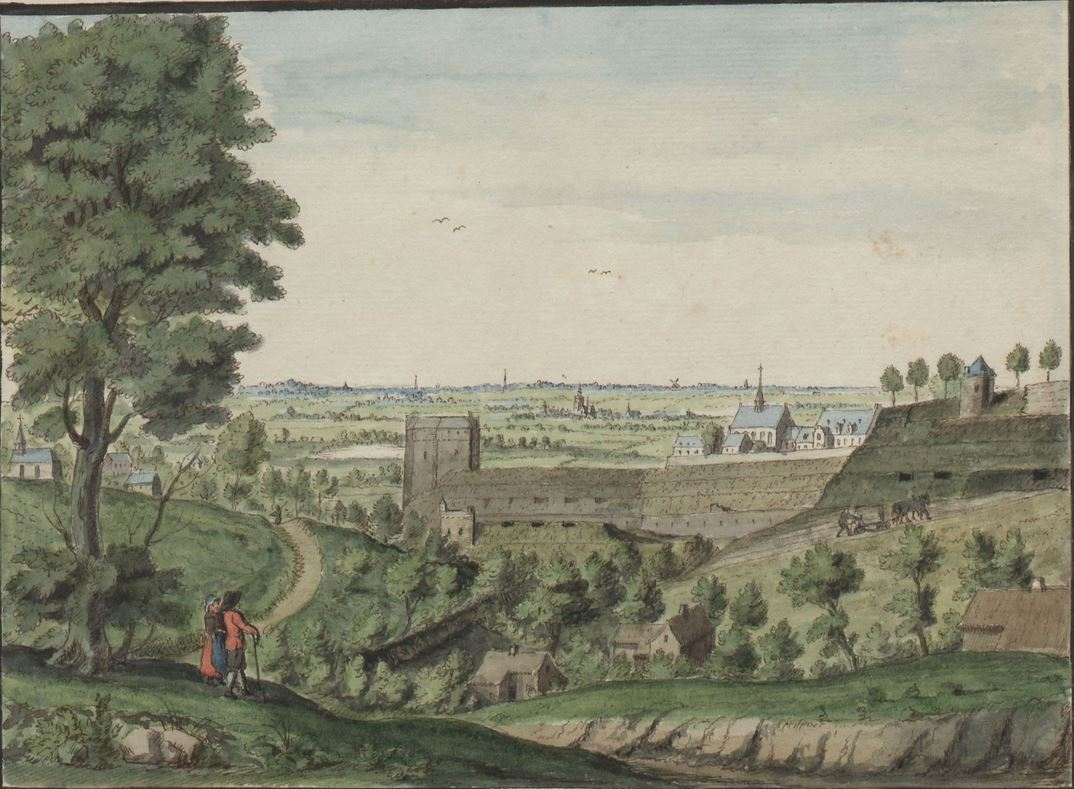 Drawing by Hendrik van Wel (c. 23 x 17 cm) from the album Forty-six landscape drawings of Netherlandish towns and villages Royal Library of Belgium Native nameFrench: Bibliothèque Royale